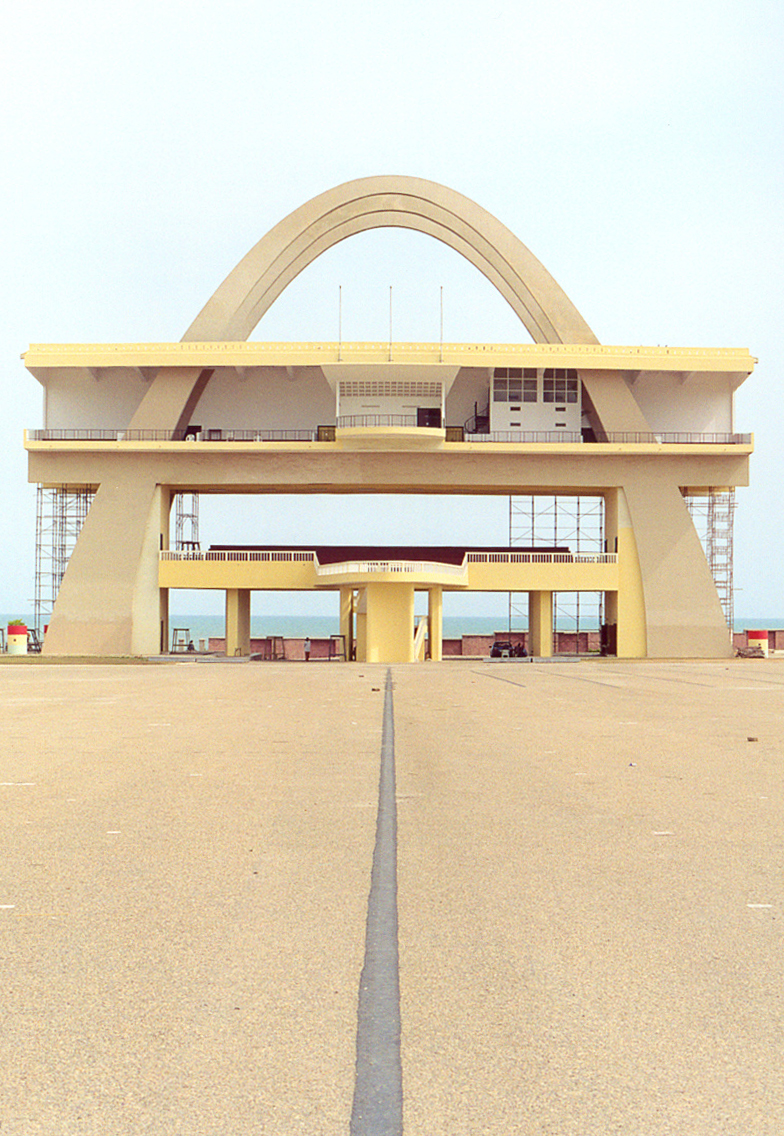 Independence Arch in Accra, Ghana. Independence Square near the beach has an open air space for 30,000 people to watch parades or hear speeches.